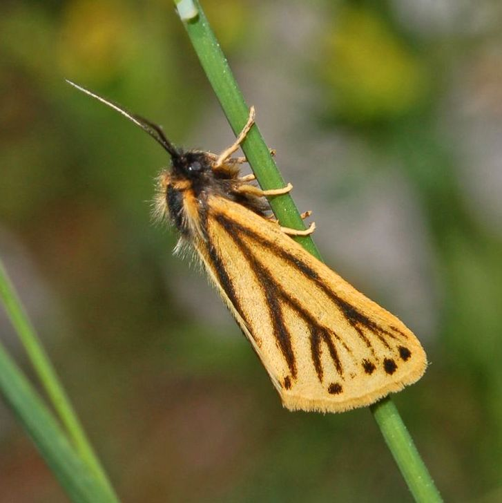 Arctiidae - Seina aurita